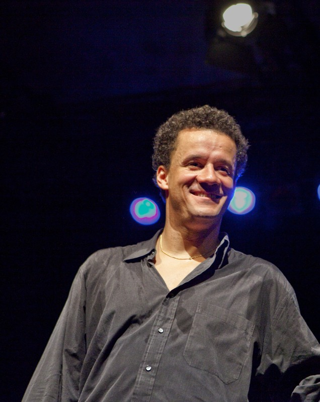 Jackie Terrasson and Michel Portal at Dortmund, Domicil